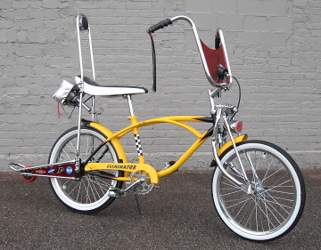 American Muscle Bicycle with many after-market accessories.